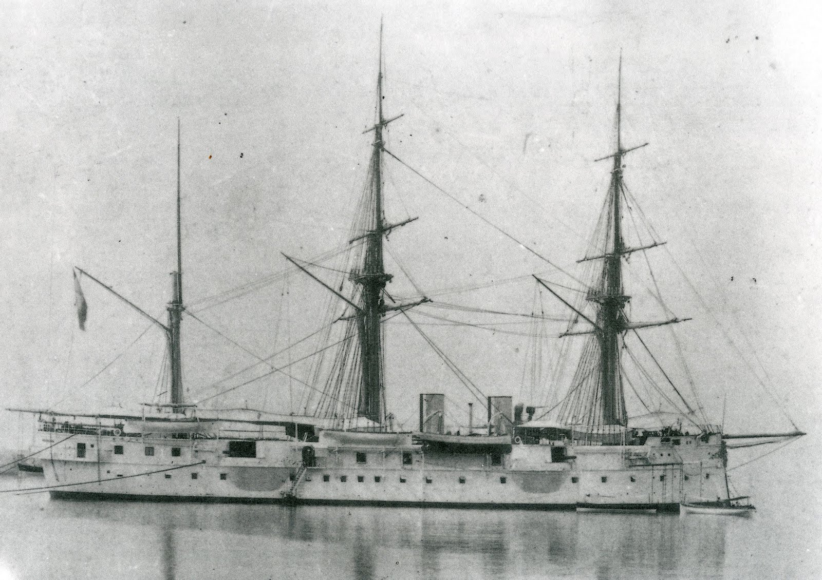 The cruise Aragón, it was first of the first class Aragón of the Spanish Navy (1.898)